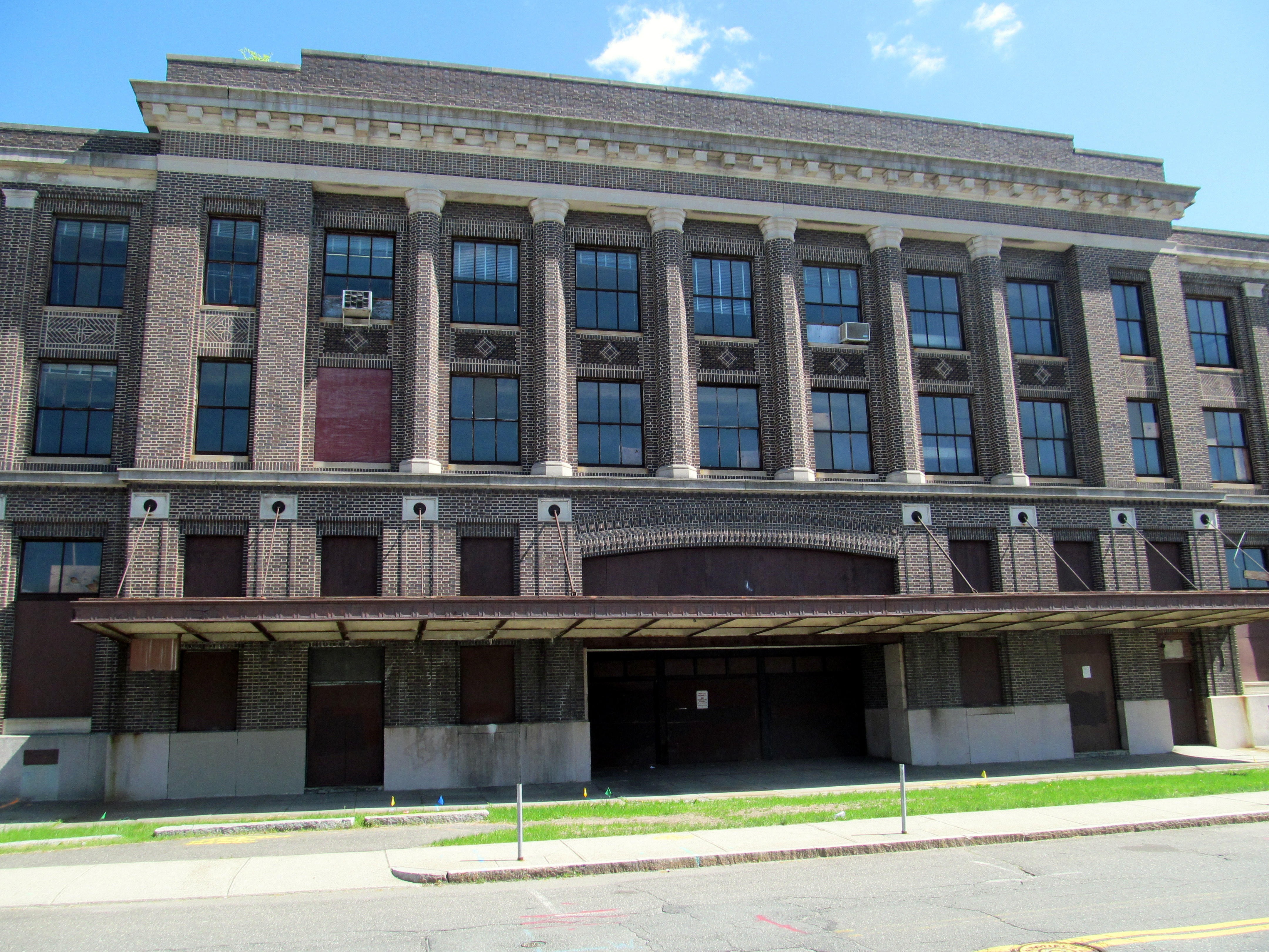 Main entrance to Springfield Union Station in May 2013